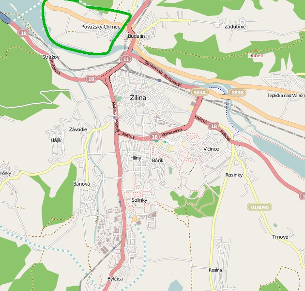 Zilina-Povazsky Chlmec map location